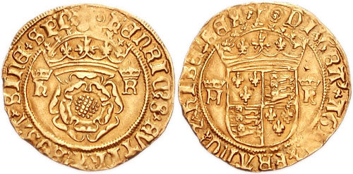 Tudor. Henry VIII of England. 1509-1547. AV Crown of the Double Rose (24mm, 3.69 g, 8h). Third coinage. London mint; mm: pellet in annulet, 1544-1547. hEnRIC' . 8 . RVTILA' . ROSA . SInE . SPI' :, crowned double rose flanked by crowned H and R; clover stops DI' . GRA' . AGLI' . FRAnC' . Z . hIBE' . REX ., crowned royal coat-of-arms flanked by crowned H and R; clover stops. :Whitton, Tower variant 3; Schneider 634; North 1834; SCBC 2305. VF. Well struck on a full flan. Ex Davisson's 7 (21 August 1996), lot 14.